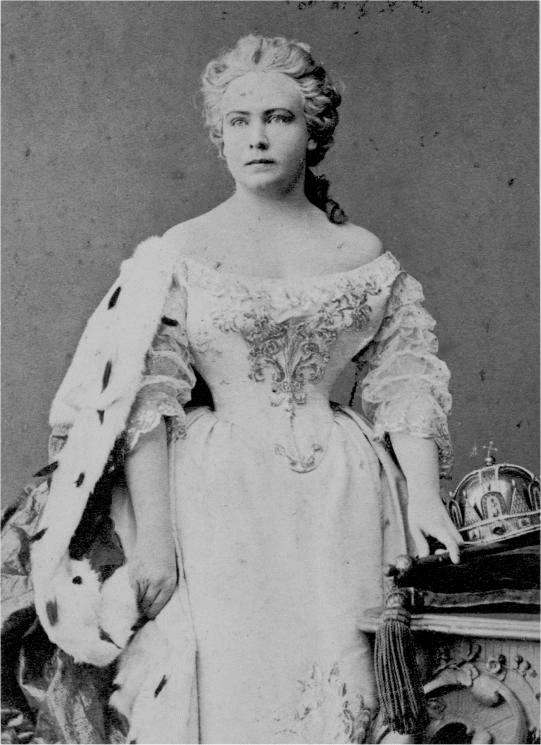 Maria Geistinger (1833-1903), austrian actress and singer